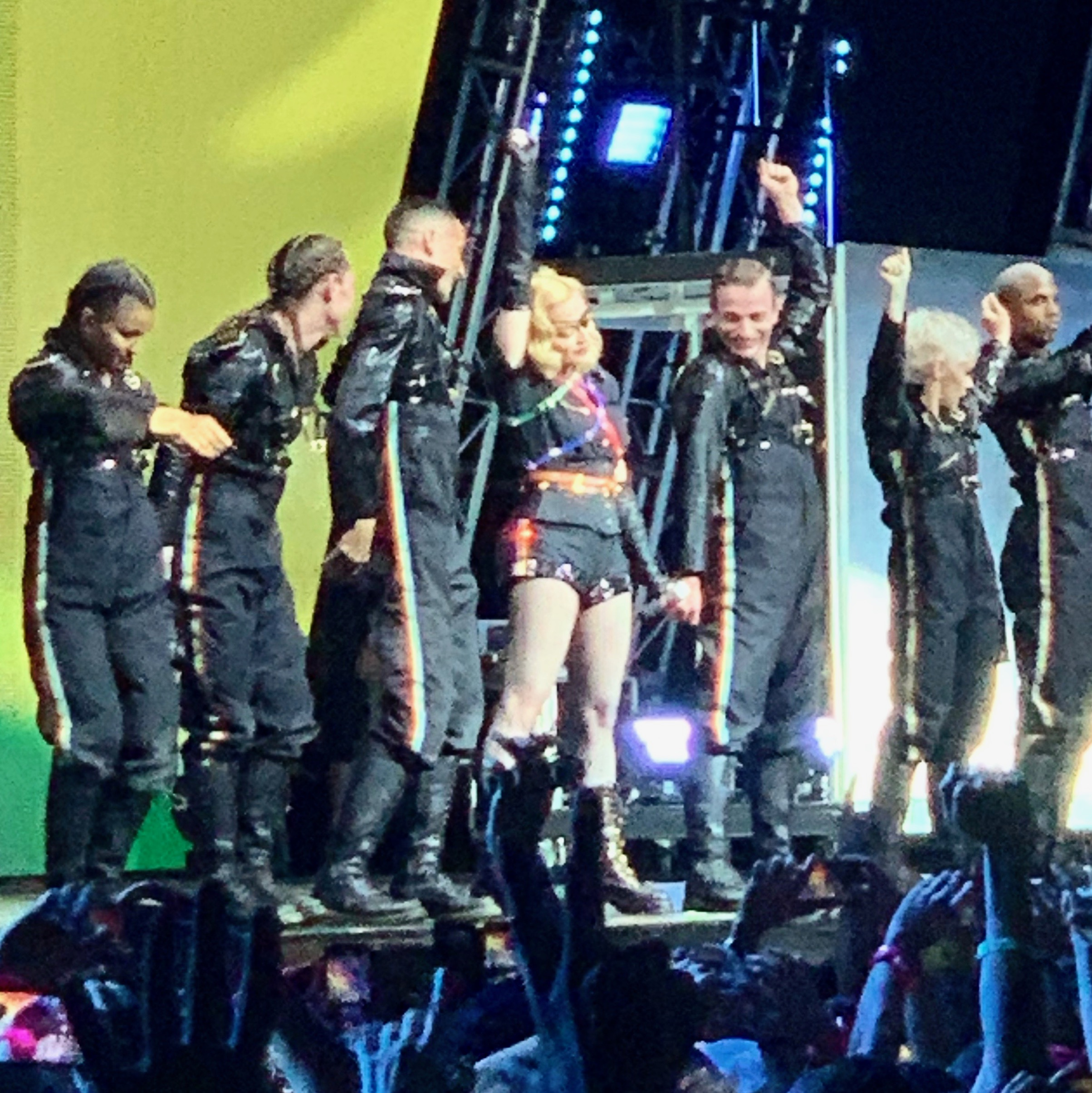 Madonna performing at the Stonewall 50 – WorldPride NYC 2019